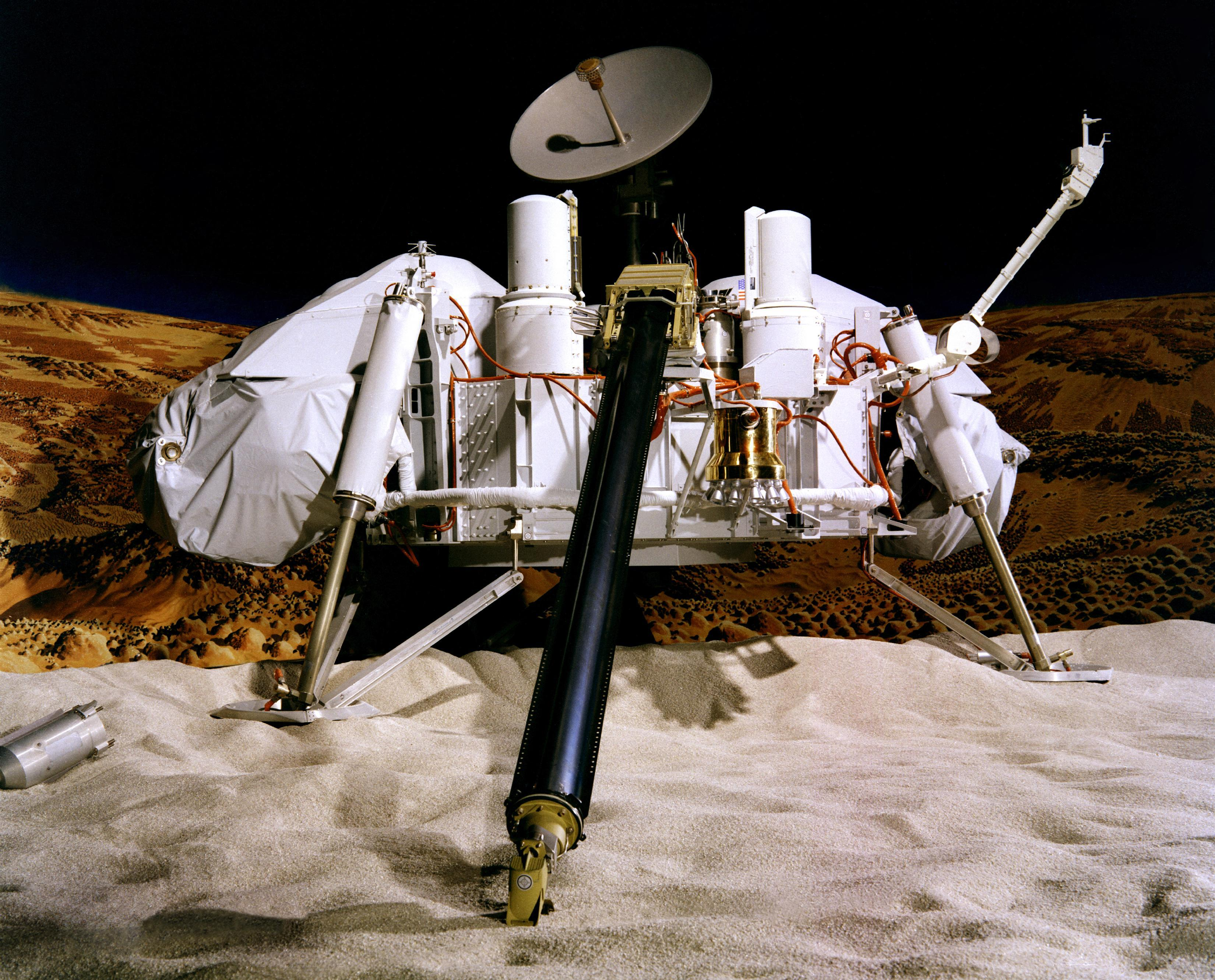 This artist's concept depicts a Viking lander on the surface of Mars.